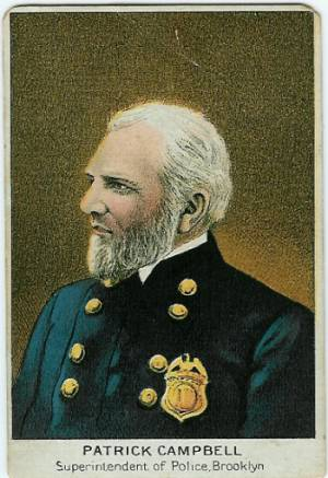 Patrick Campbell, Superintendent of the Brooklyn Police. Card issued with Buchner's "One of the Finest" Tobacco in 1888.